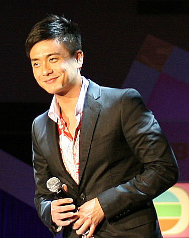 Bosco Wong, cut to fit Wikipedia infoboxes.